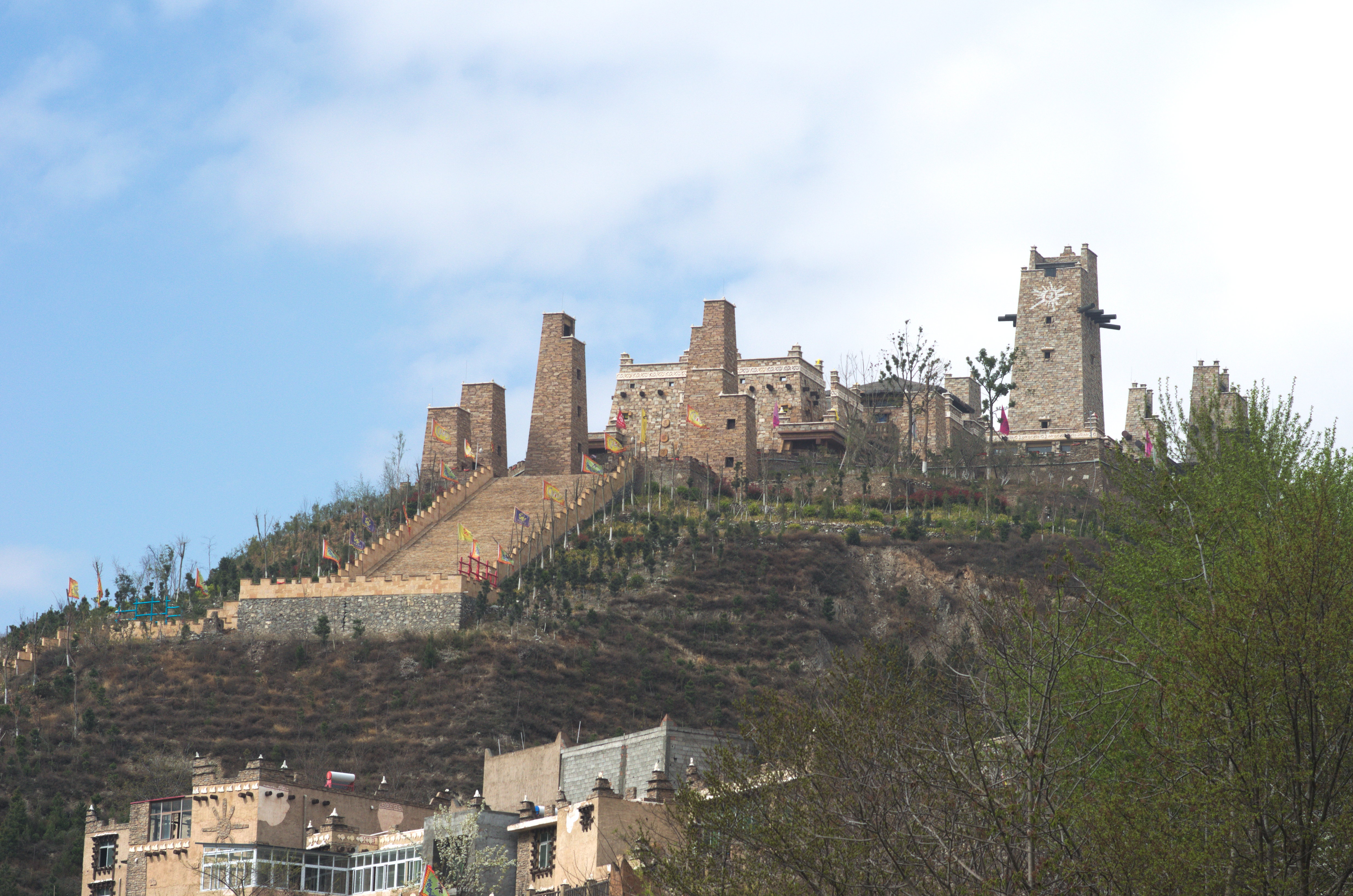 Silver Turtle Temple (银龟神庙 Yínguīshénmiào) is a major centre of Qiang folk religion consecrated in 2013-2014, a complex of temples dedicated to various gods. Among the chapels there are a Great Temple of Yandi (炎帝大殿 Yándì dàdiǎn), a Great Temple of Dayu (大禹大殿 Dàyǔ dàdiàn) and a Great Temple of Li Yuanhao (李元昊大殿 Lǐyuánhào dàdiàn), considered the most important deities of the Qiang people. It is located on Qiangshan, in Qiang City (古羌城) Mao County of Ngawa Tibetan and Qiang Autonomous Prefecture, in Sichuan.